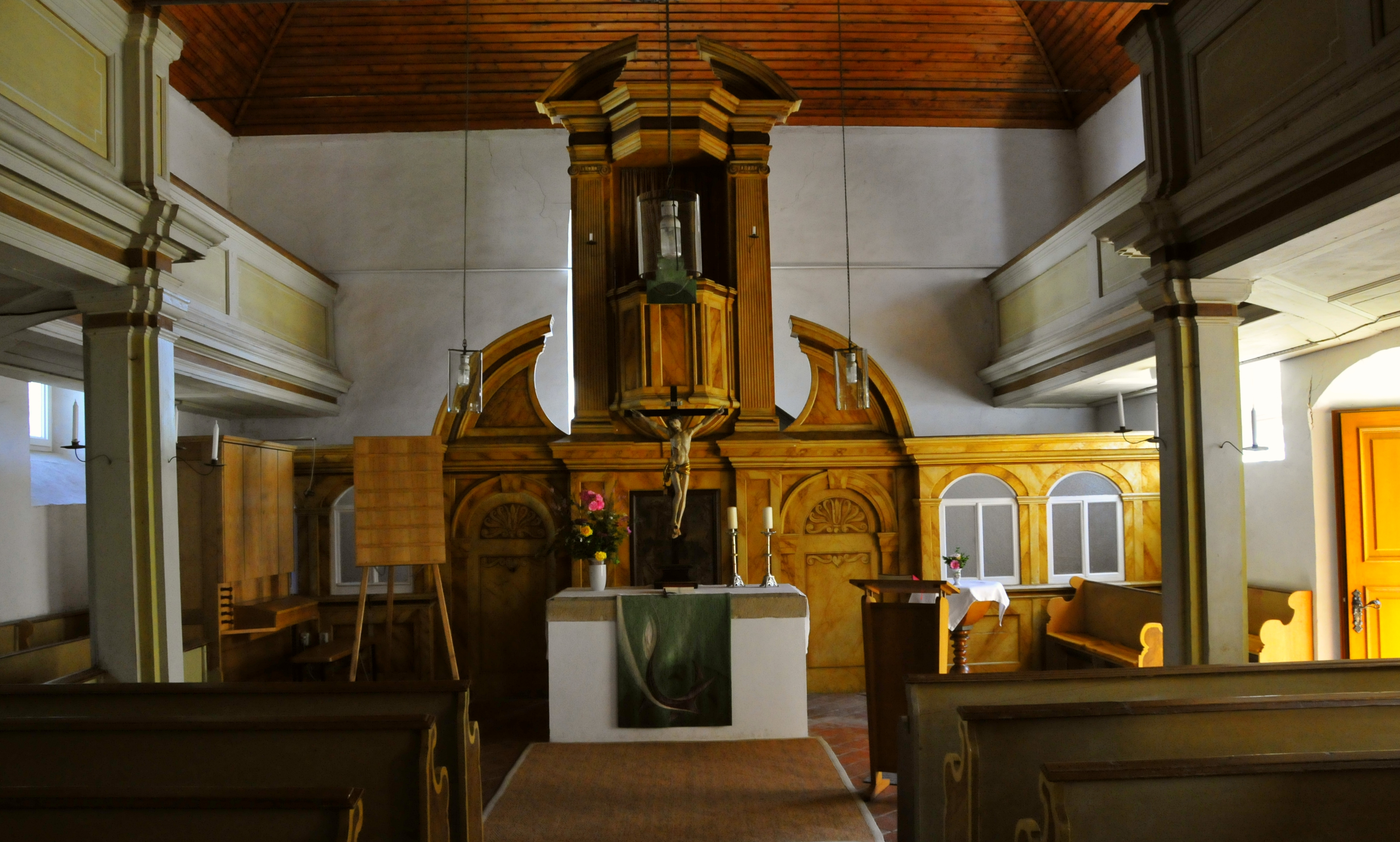 Church in Boilstädt, interior view